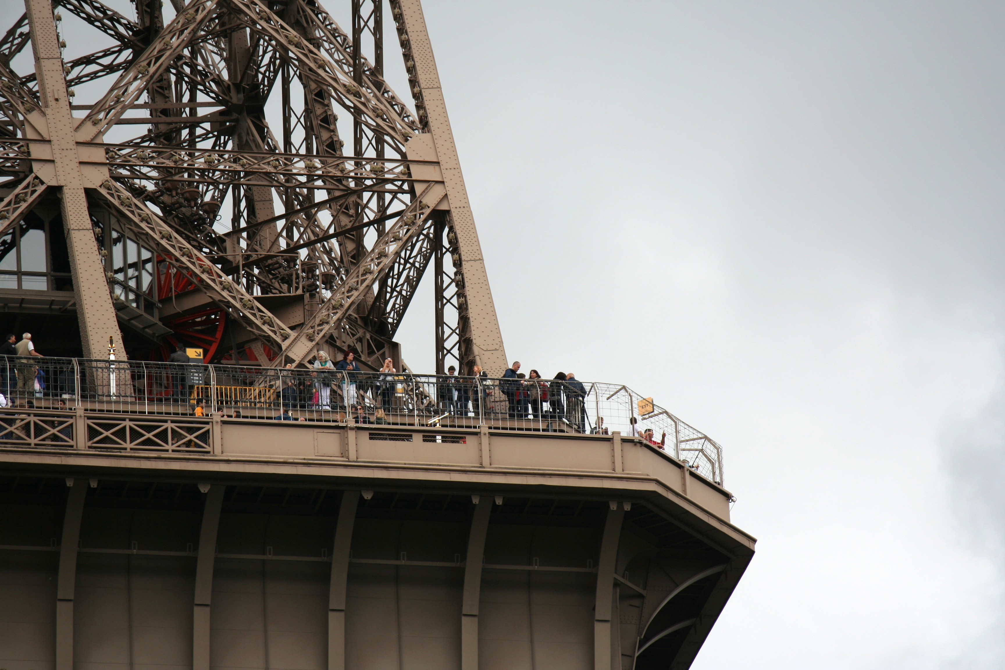 Second floor of the Eiffel Tower